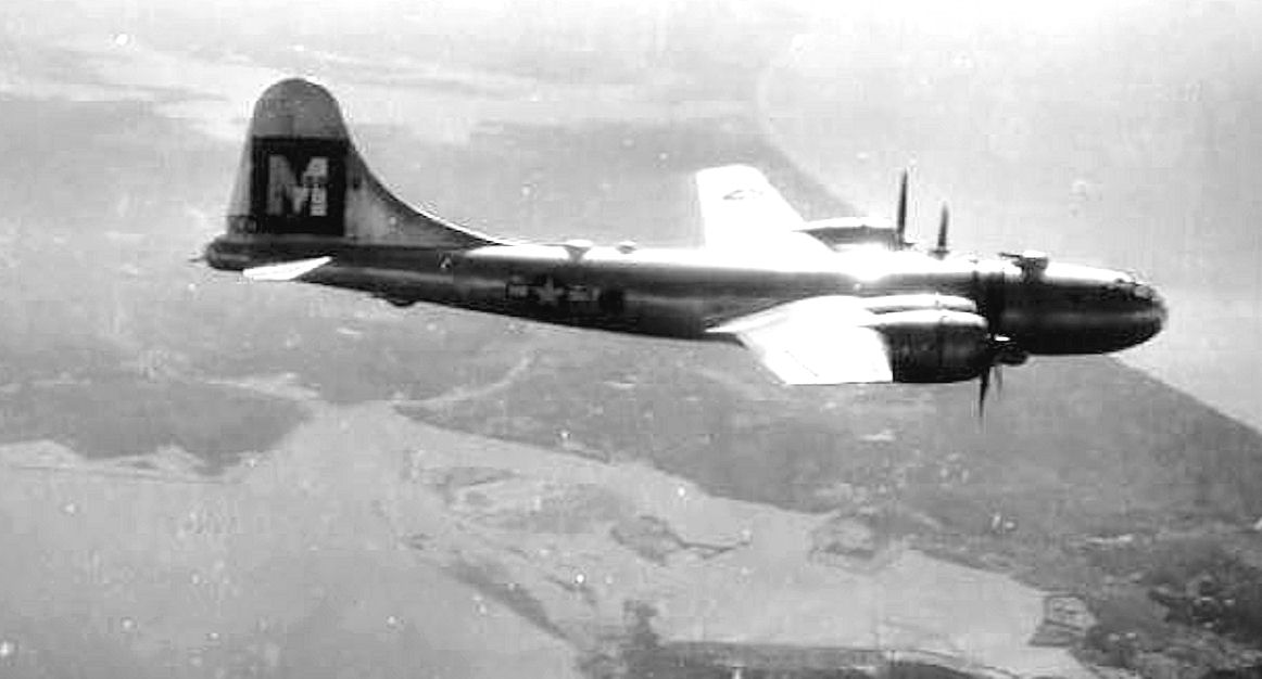 19th Bombardment Group - B-29 Superfotress - World War II